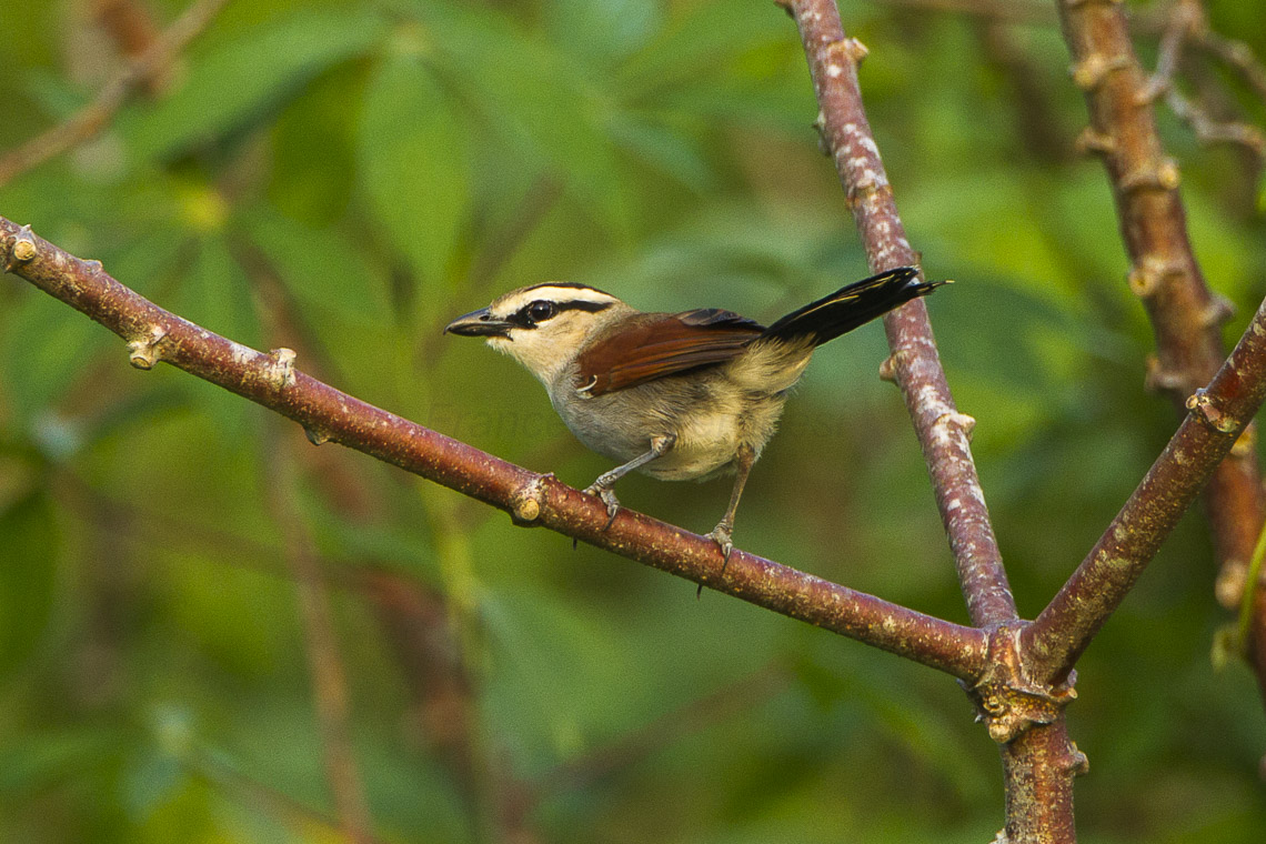 A Brown-crowned Tchagra (Tchagra australis) near of the Kakum National Park (Ghana)